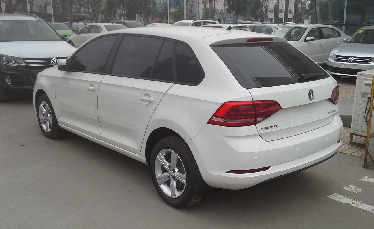 Volkswagen Gran Santana photographed in Zhanjiang, Guangdong province, China.